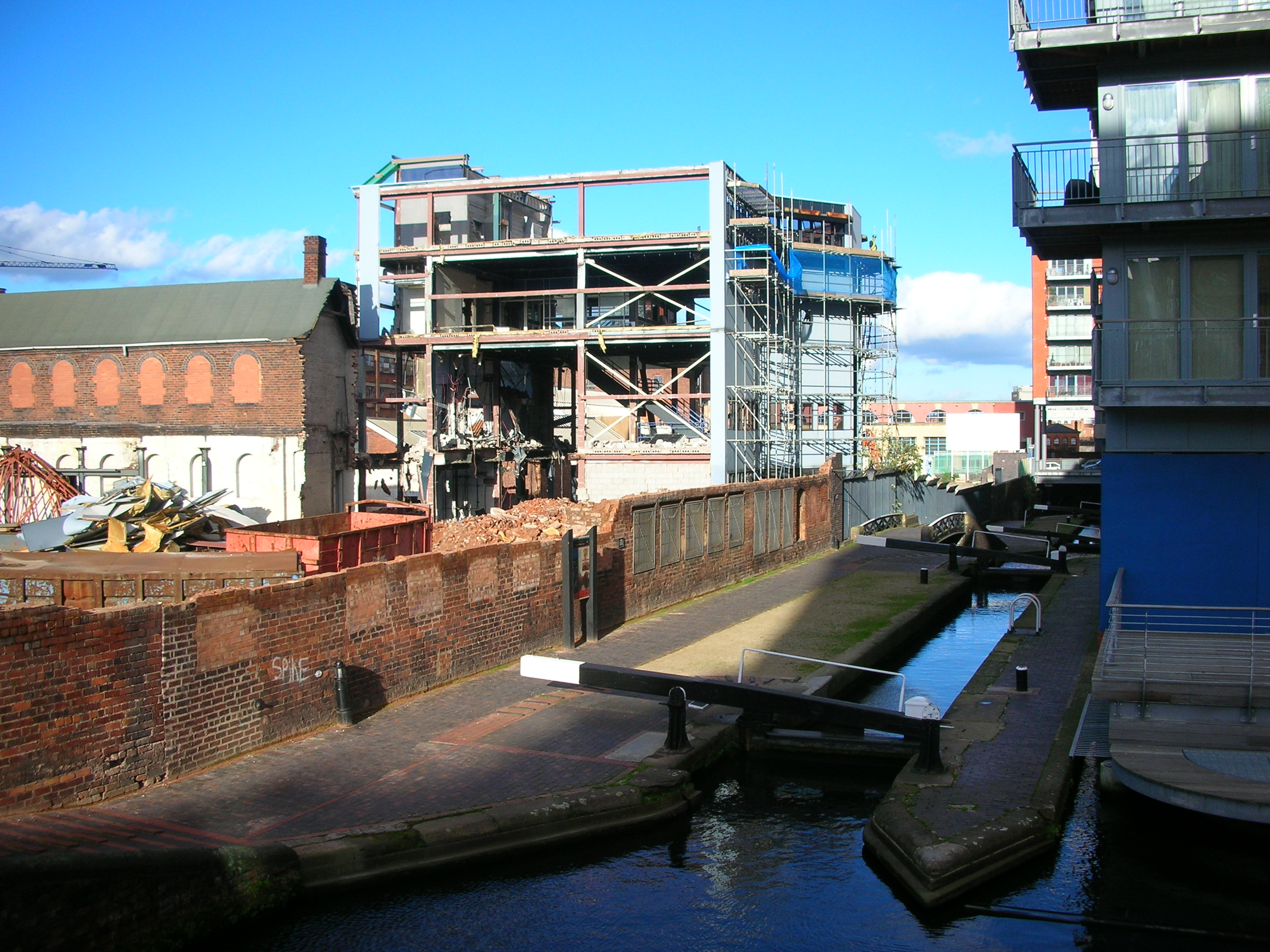 The Science Museum, Birmingham (originally the Elkington Silver Electroplating Works) undergoing demolition, and the Birmingham and Fazeley Canal showing one of the series of Farmers Bridge locks, and the iron roving bridge over the entrance to the filled-in Whitmore Arm canal which originally served the Elkington Works. Photographed by me 26 October 2006. Oosoom 17:36, 26 October 2006 (UTC)